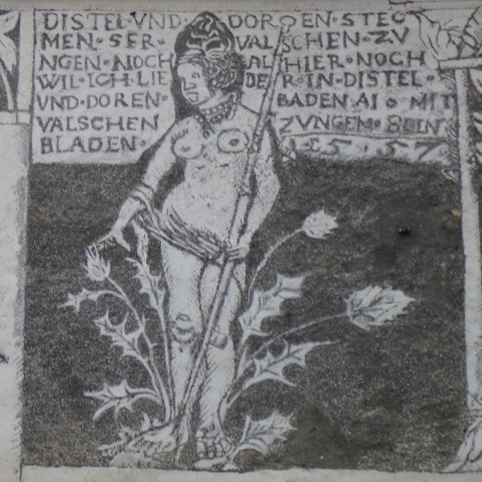 Kostelní náměstí 28 - sgraffito dated 1557: "Disteln und Dornen ..."